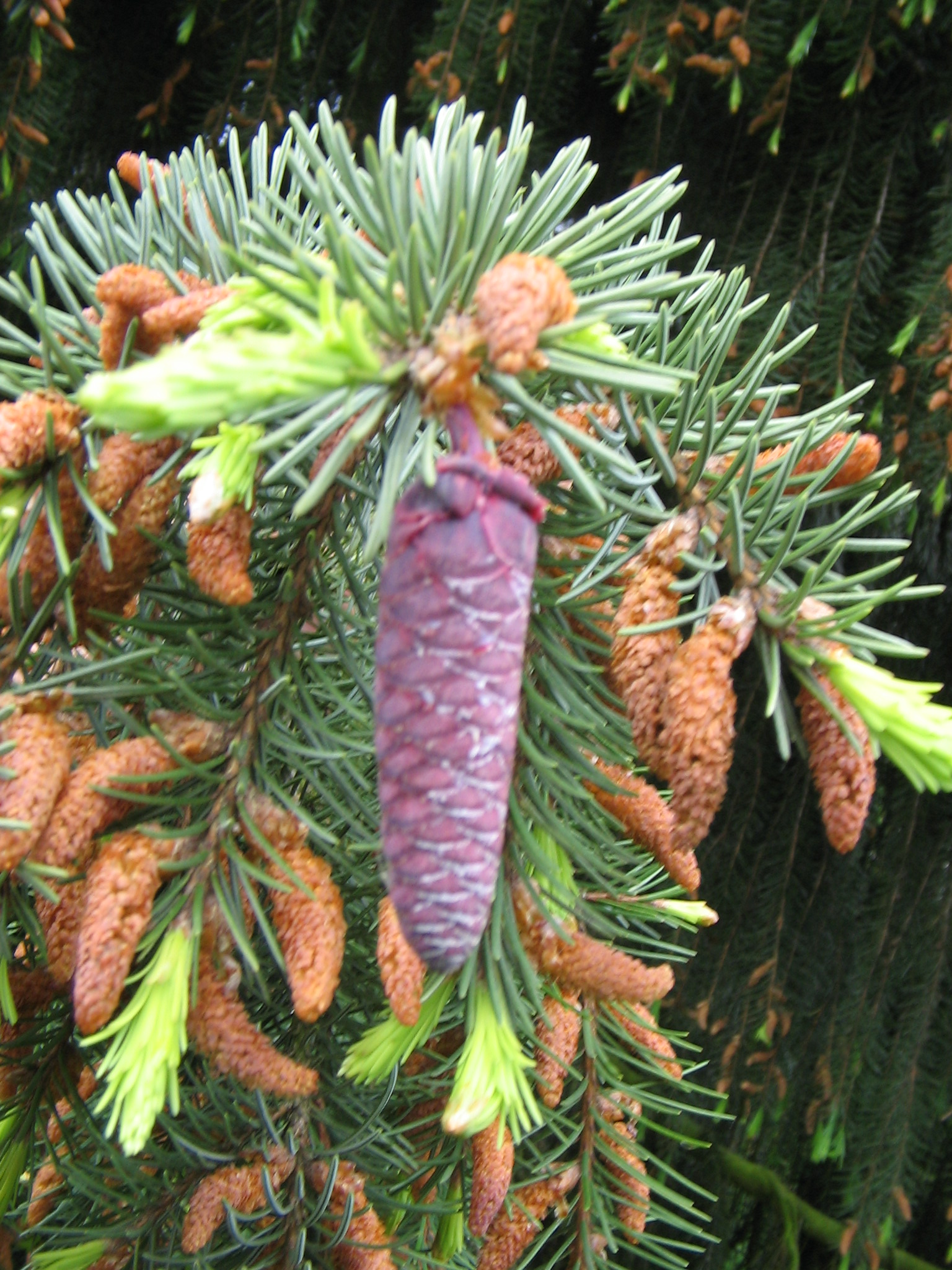 Picea breweriana - young cone (close-up)